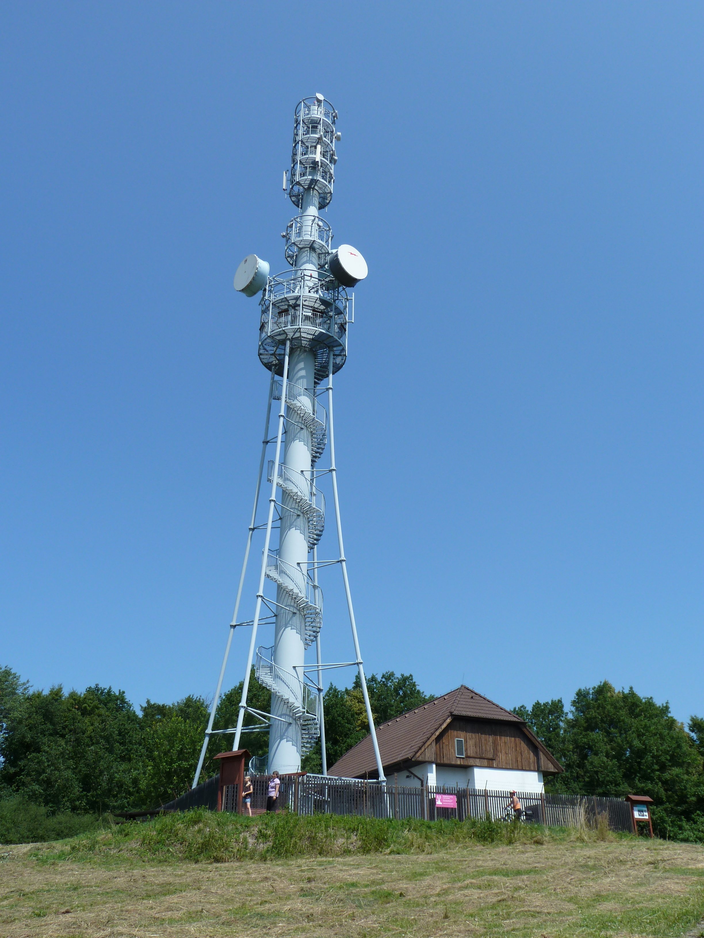 lookout tower on Okrouhlá hill near Staříč (north-eastern Moravia, Czech Republic)